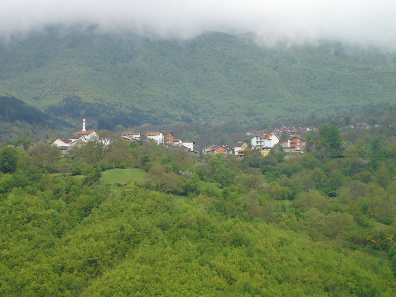 Village of Trebište, Republic of Macedonia.